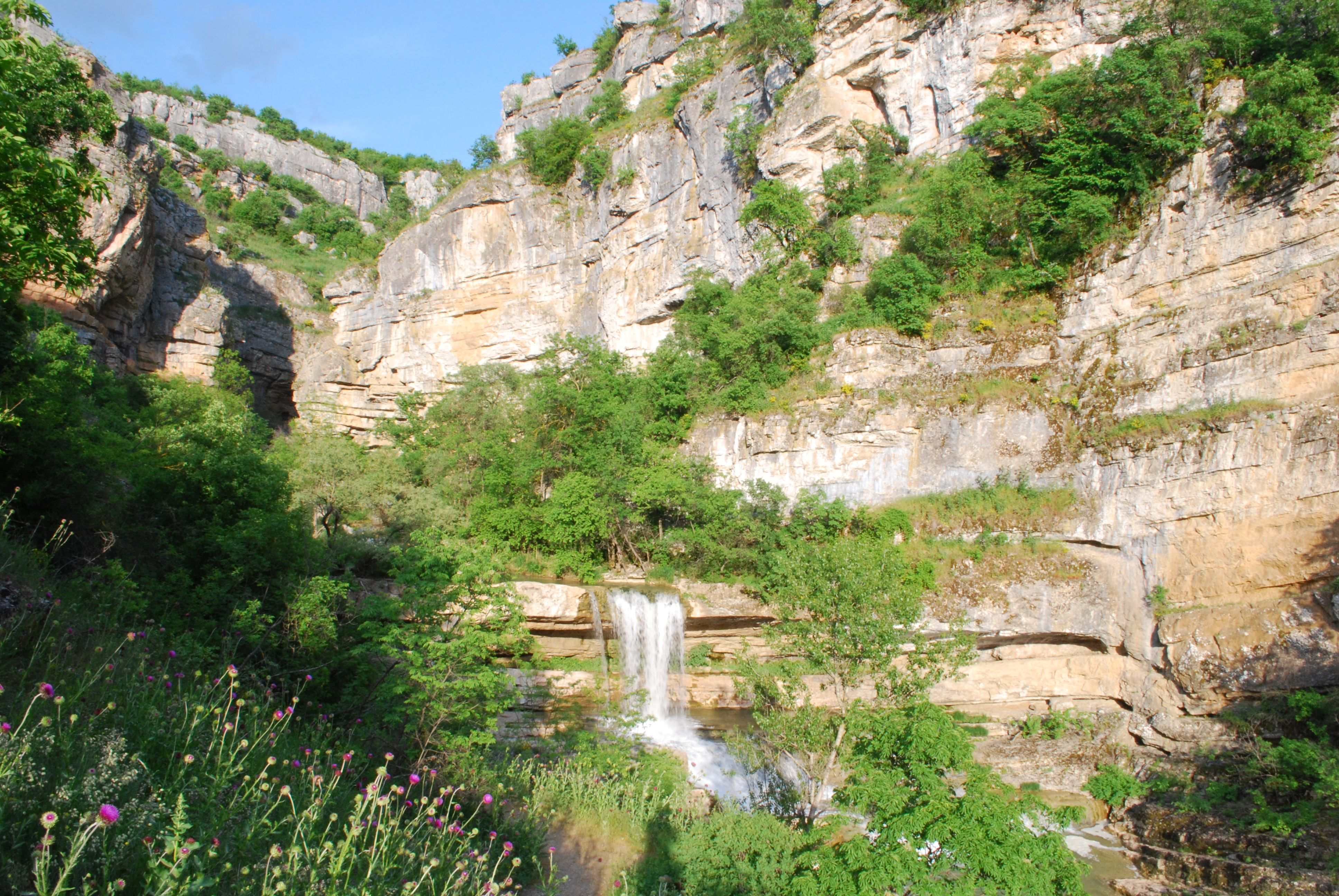 Second cascade on Mirusha river, Kosovo